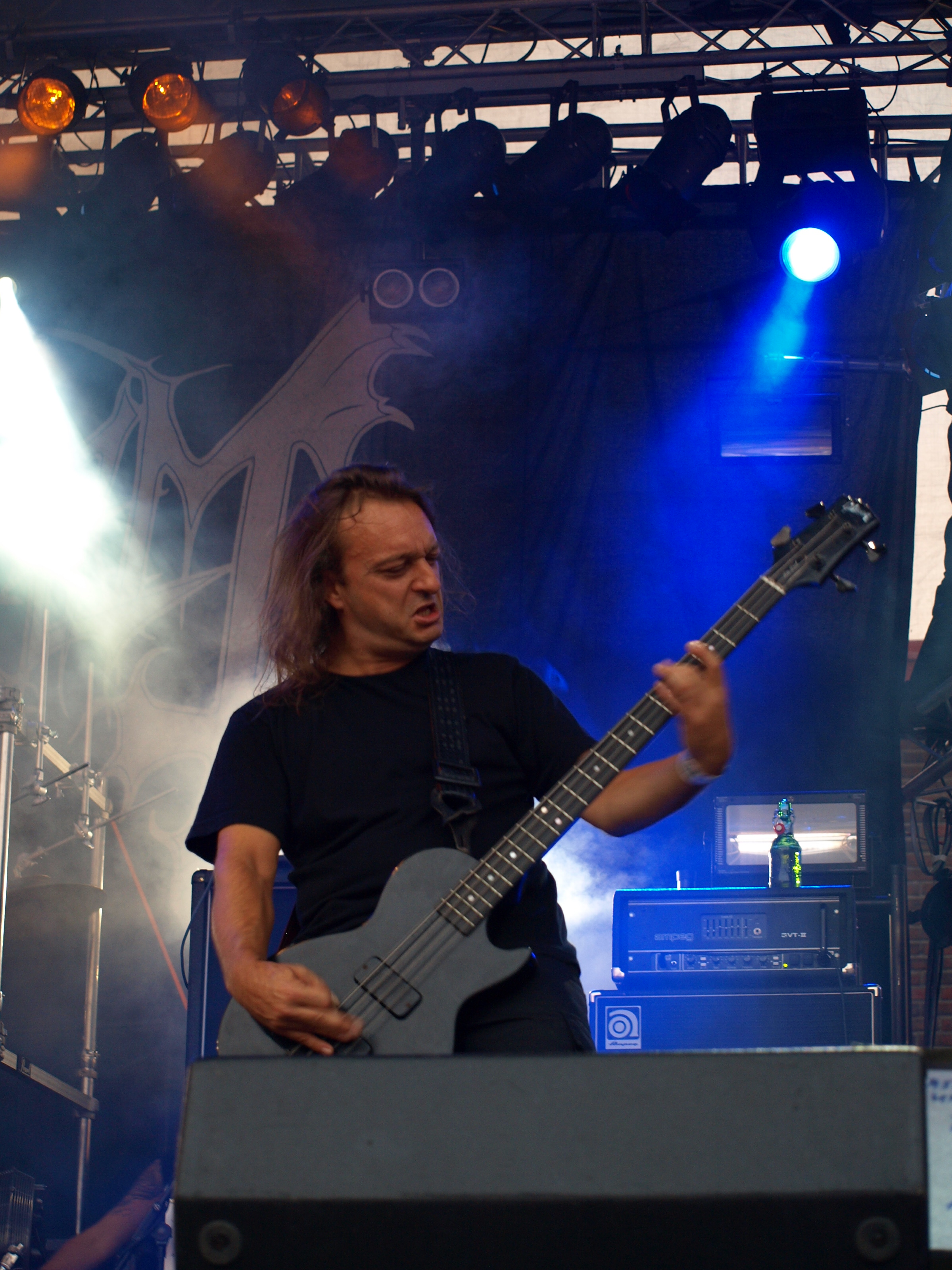 Norwegian black metal band Mayhem live at Jalometalli 2008 in Oulu.